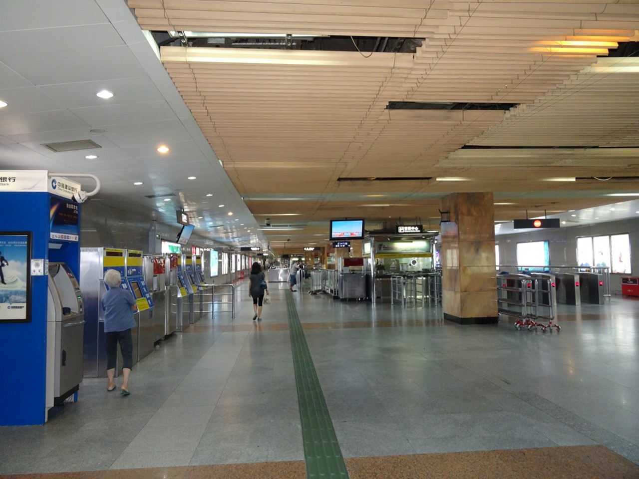 長壽路站嘅站廳